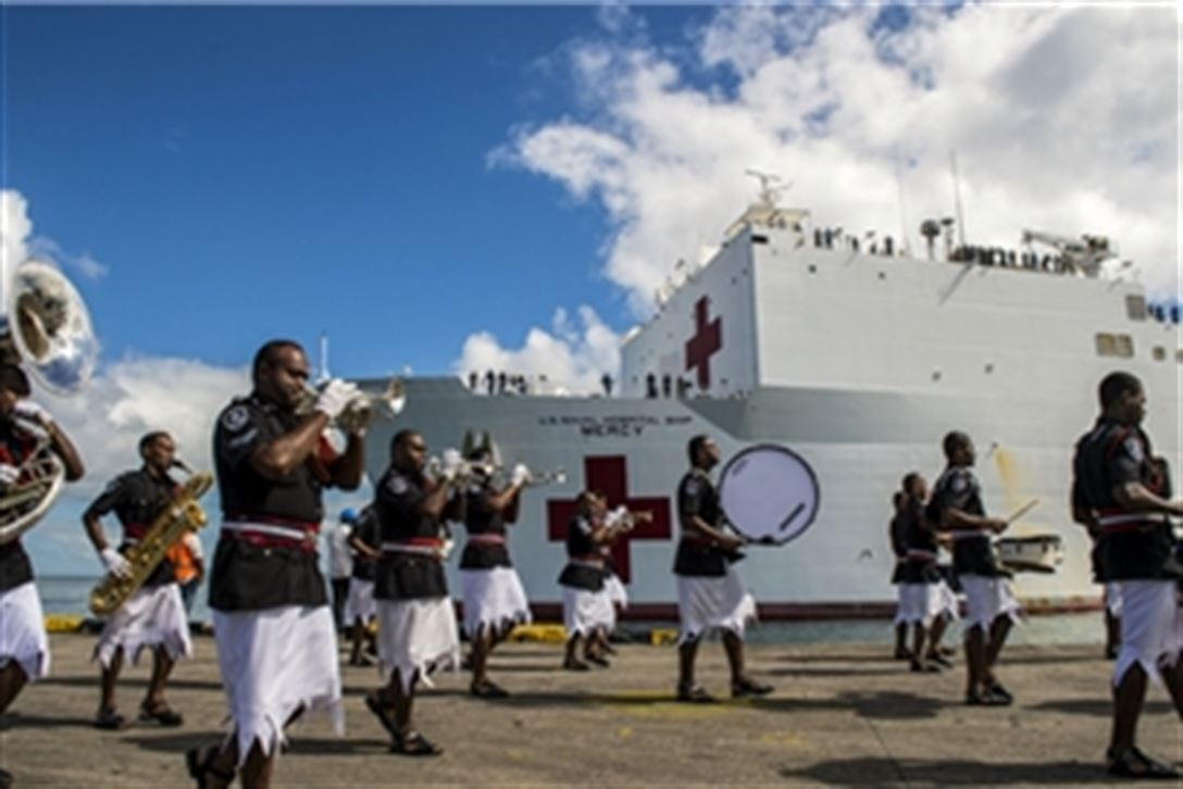 The Fiji Police Band welcomes the Military Sealift Command hospital ship USNS Mercy to Suva, Fiji, with a musical performance, June 7, 2015. Fiji is the Mercy’s first mission port for Pacific Partnership 2015.